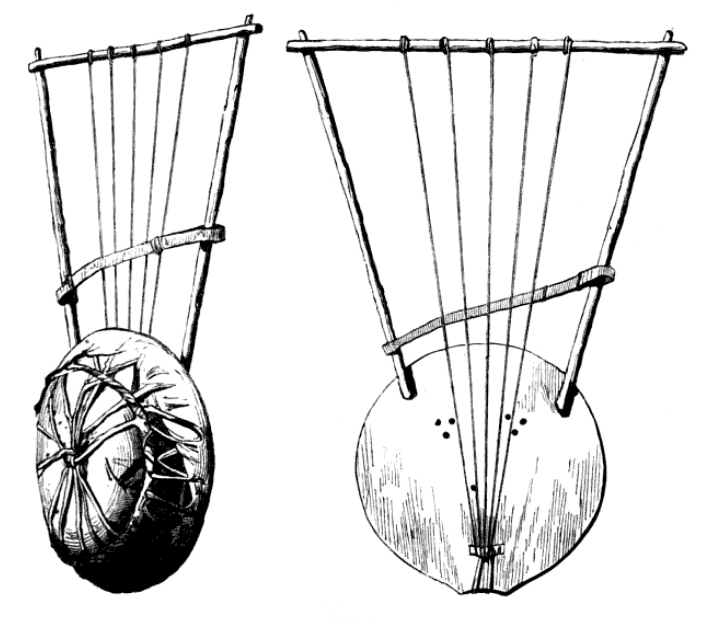 Kissar, nilotic lyre